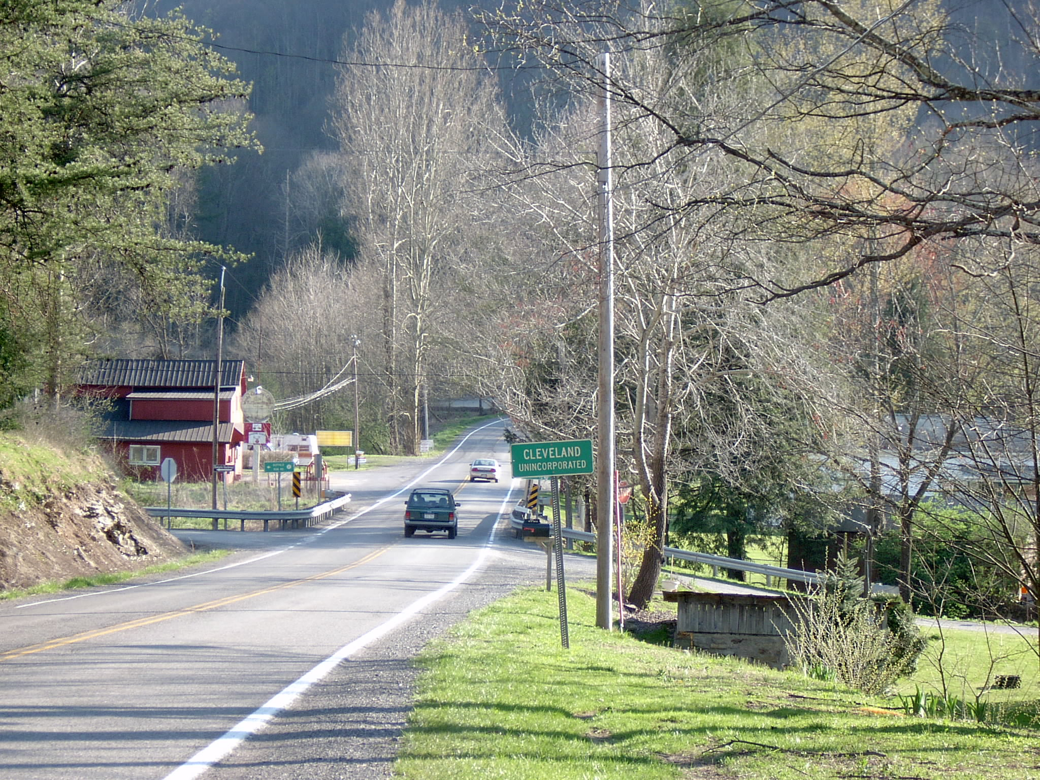 Entering Cleveland, West Virginia from the north.